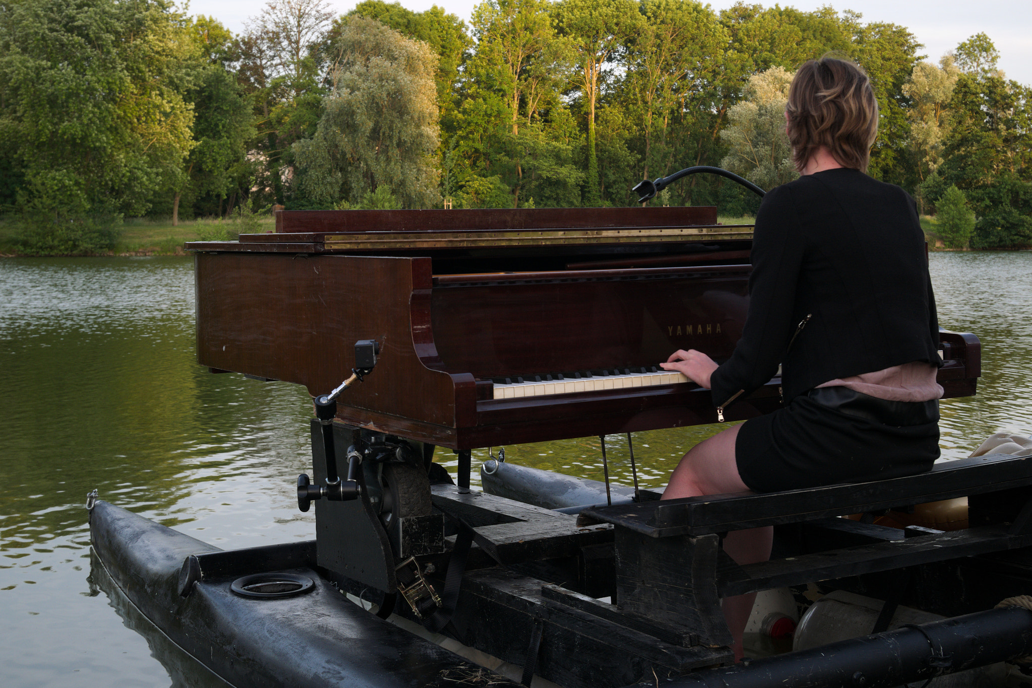 500px provided description: Plying in the middle ow the lake (almost... :) ) [#lake ,#water ,#boat ,#reflection ,#wood ,#music ,#piano ,#outdoors ,#daylight ,#watercraft]